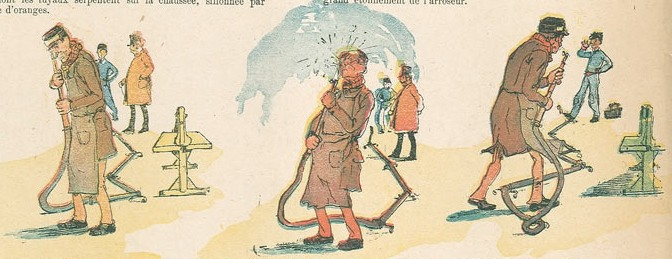 Excerpt from the cartoon L'arroseur by Hermann Vogel from 1887.